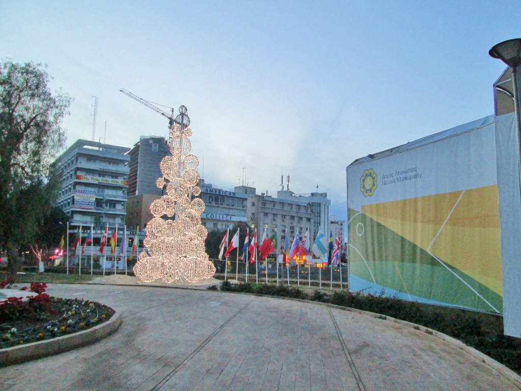 Nicosia City Hall Square in Christmas Nicosia Republic of Cyprus